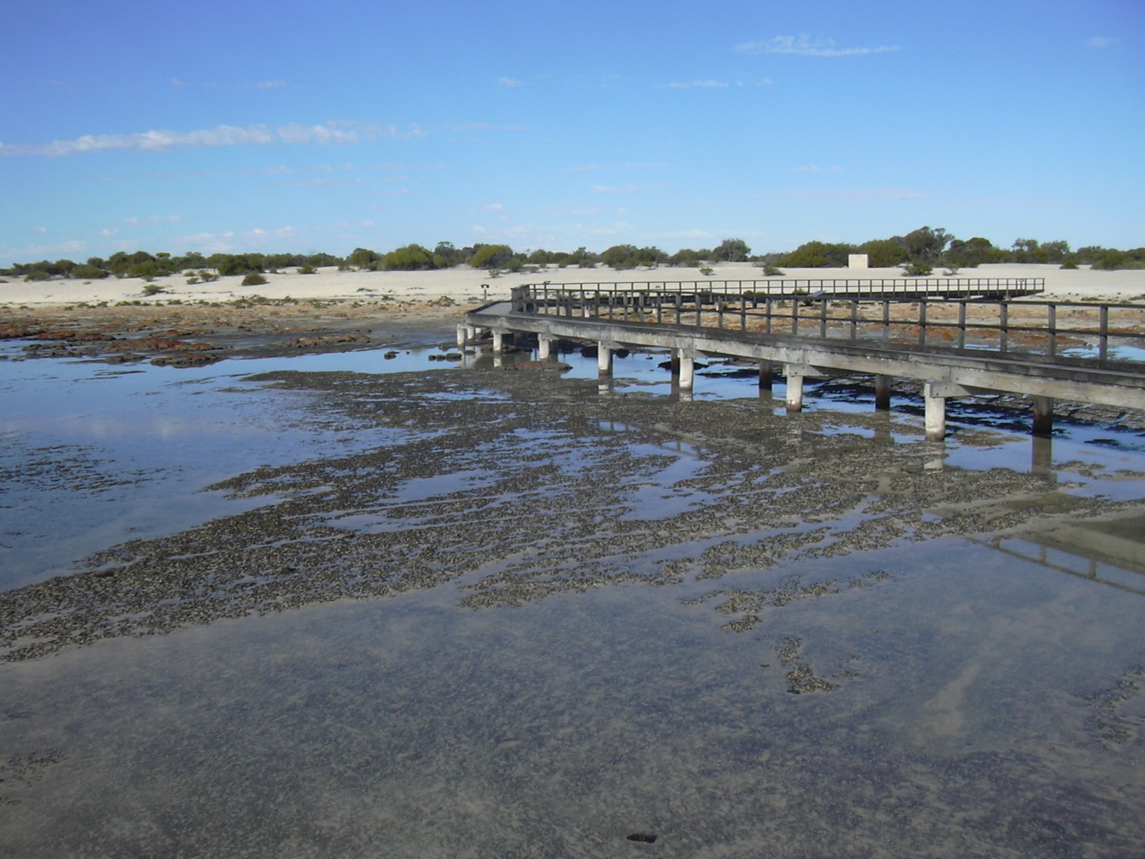 tufted mats (stromatolites) at Hamilton Pool, Shark Bay/Western Australia